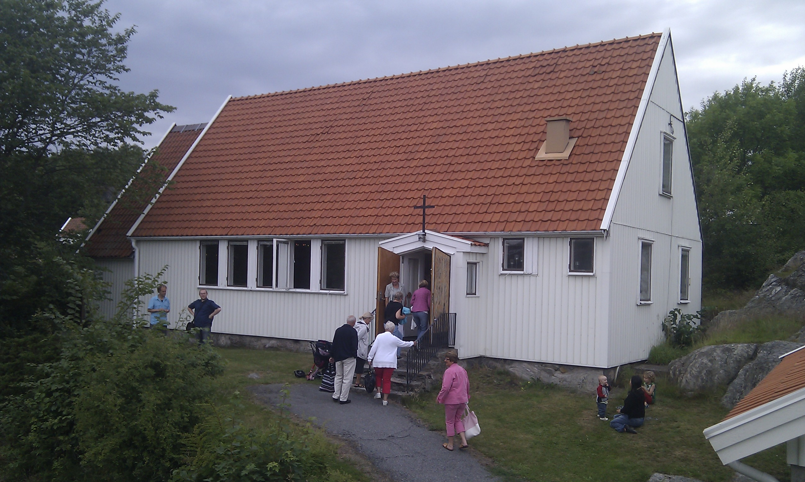 Brännö Church on the island of Brännö in Gothenburg archipelago, Sweden.